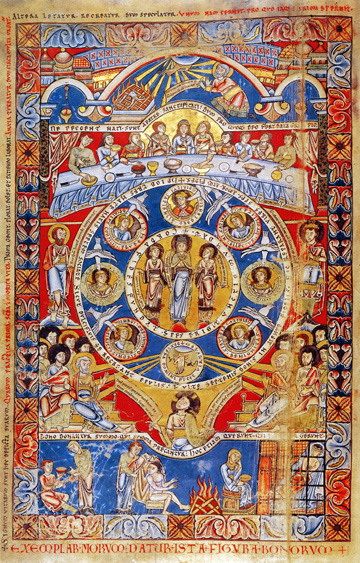 The Floreffe Bible, Meuse valley, southern Netherlands, middle or 3rd quarter of 12th century, 475 x 330 mm.